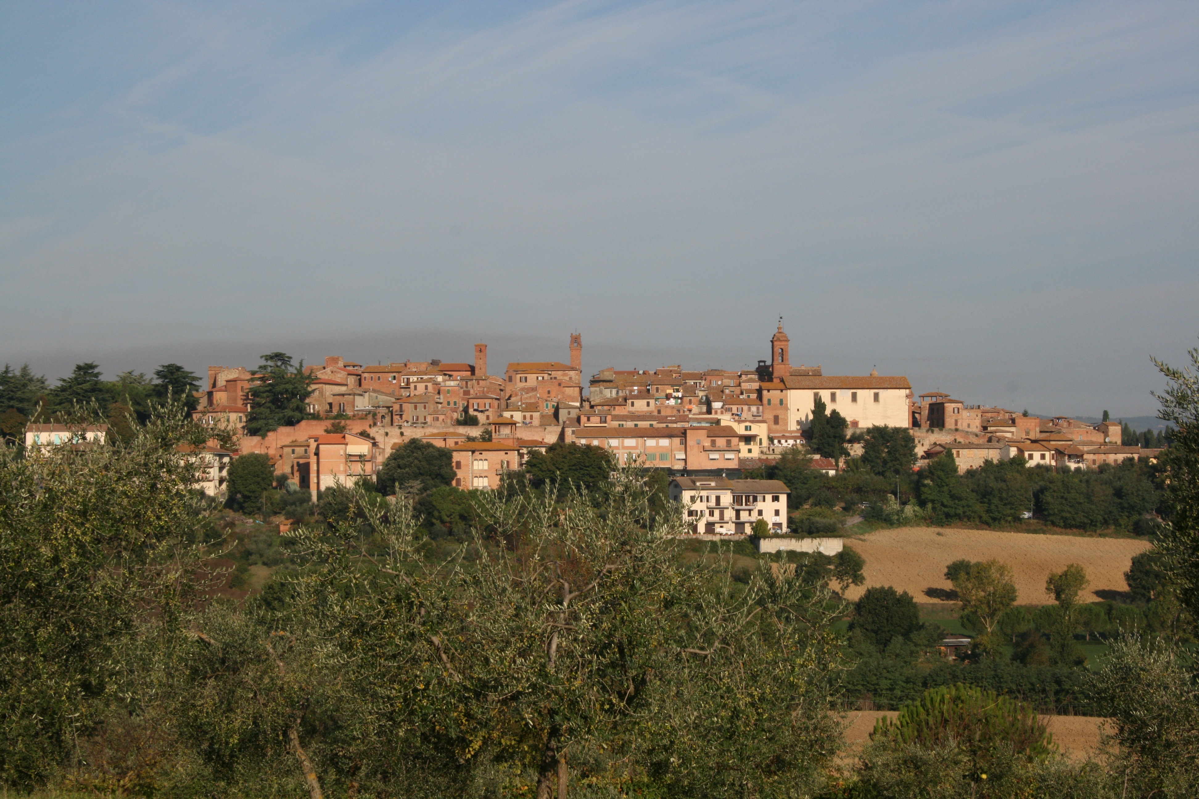 The old town of Torrita di Siena